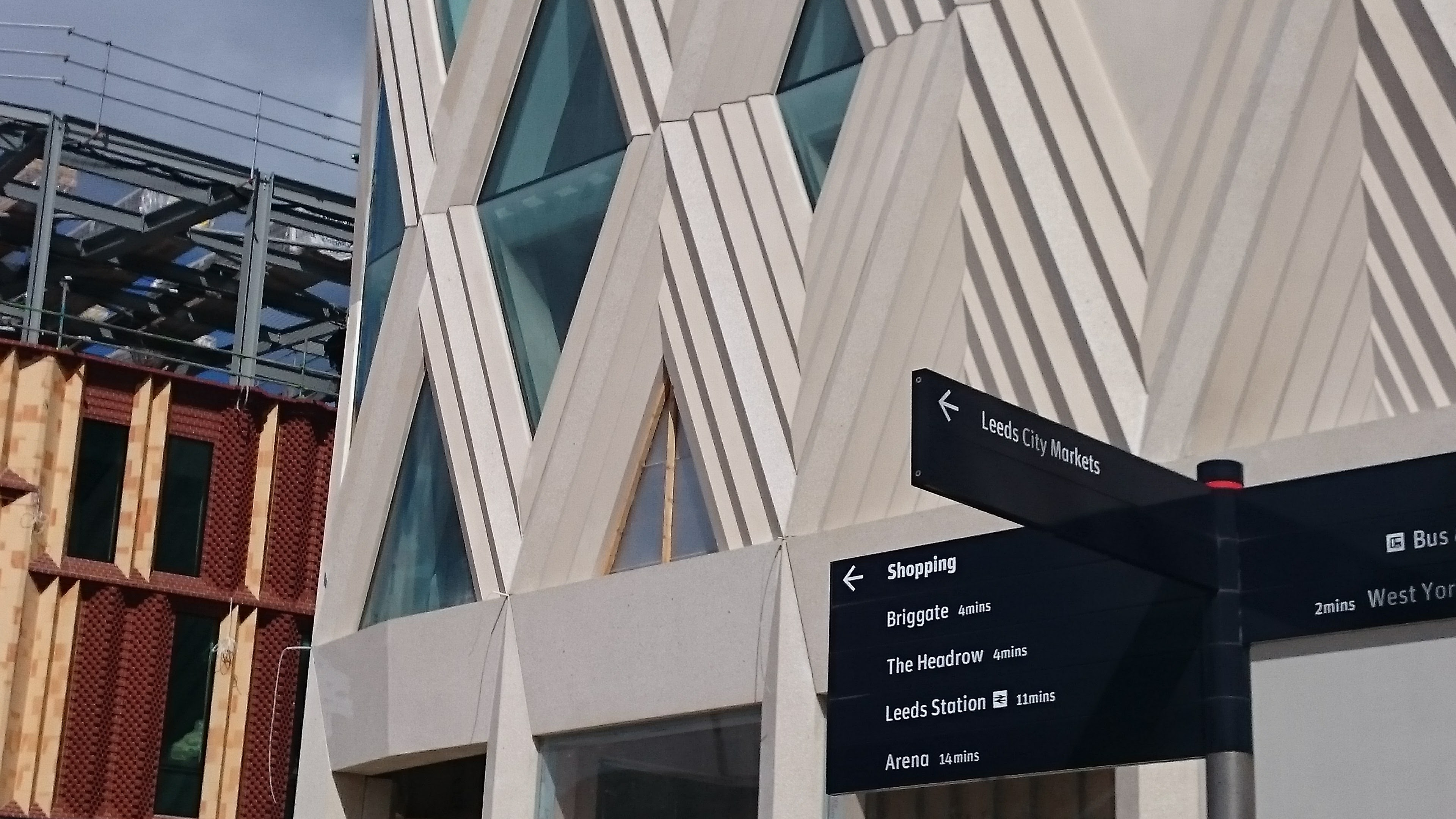 Signage between Victoria Gate (John Lewis) & Kirkgate Market